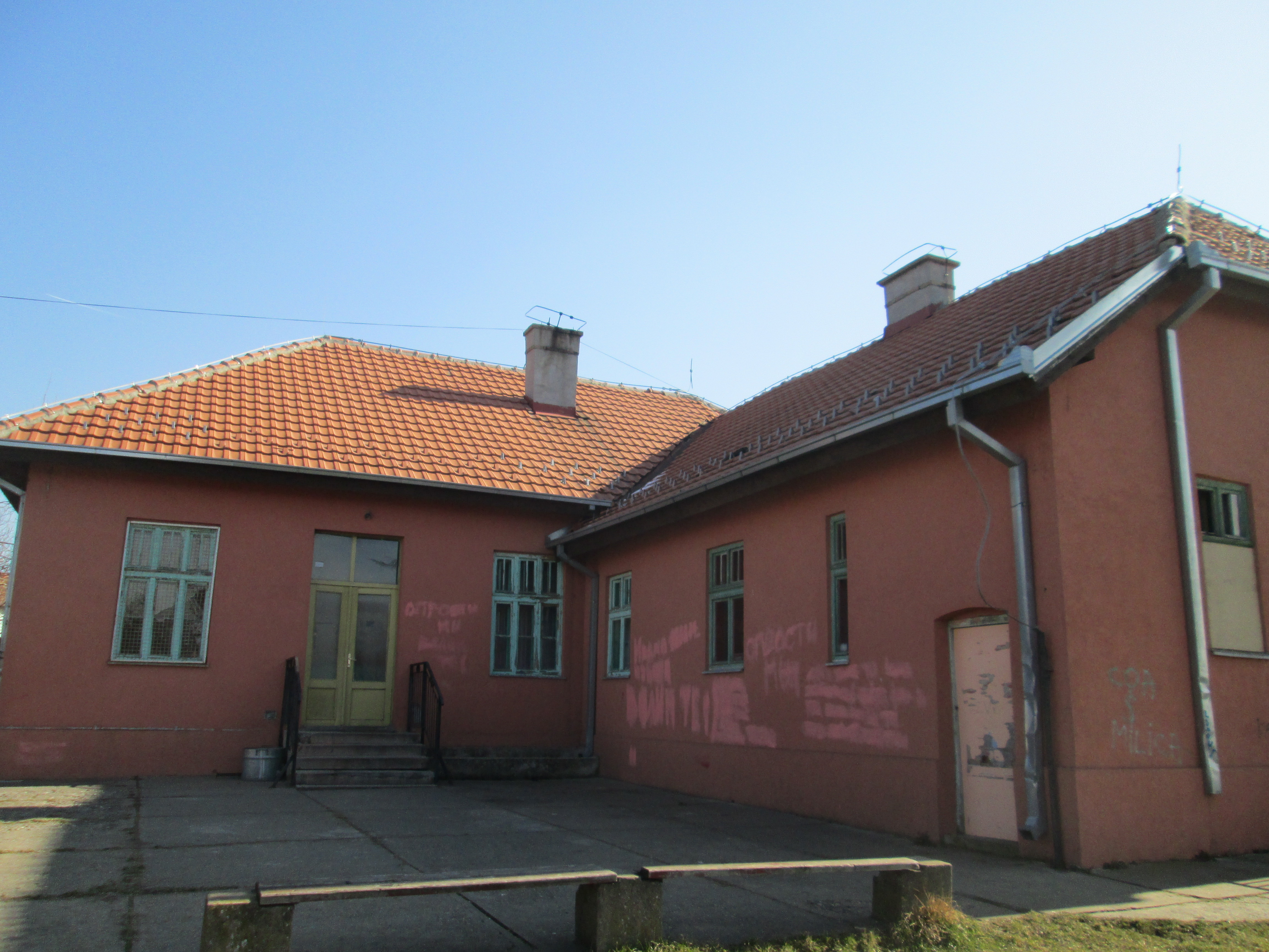 Primary school "Vuk Karadžić", Guncati Српски (ћирилица): Основна школа Вук Караџић, Гунцати